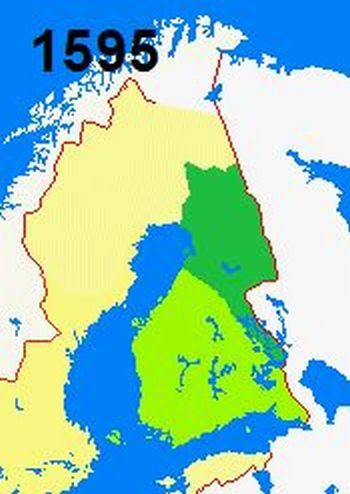 Border changes in Finland 1595